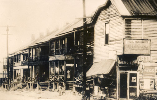 Picture of Tanyard Bottom or Techwood Flats